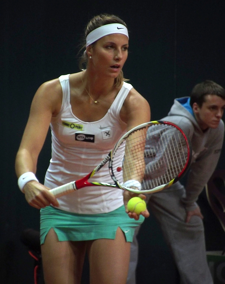 Picture taken during the women's tennis tournament BNP Paribas Open Katowice, Spodek in Katowice.